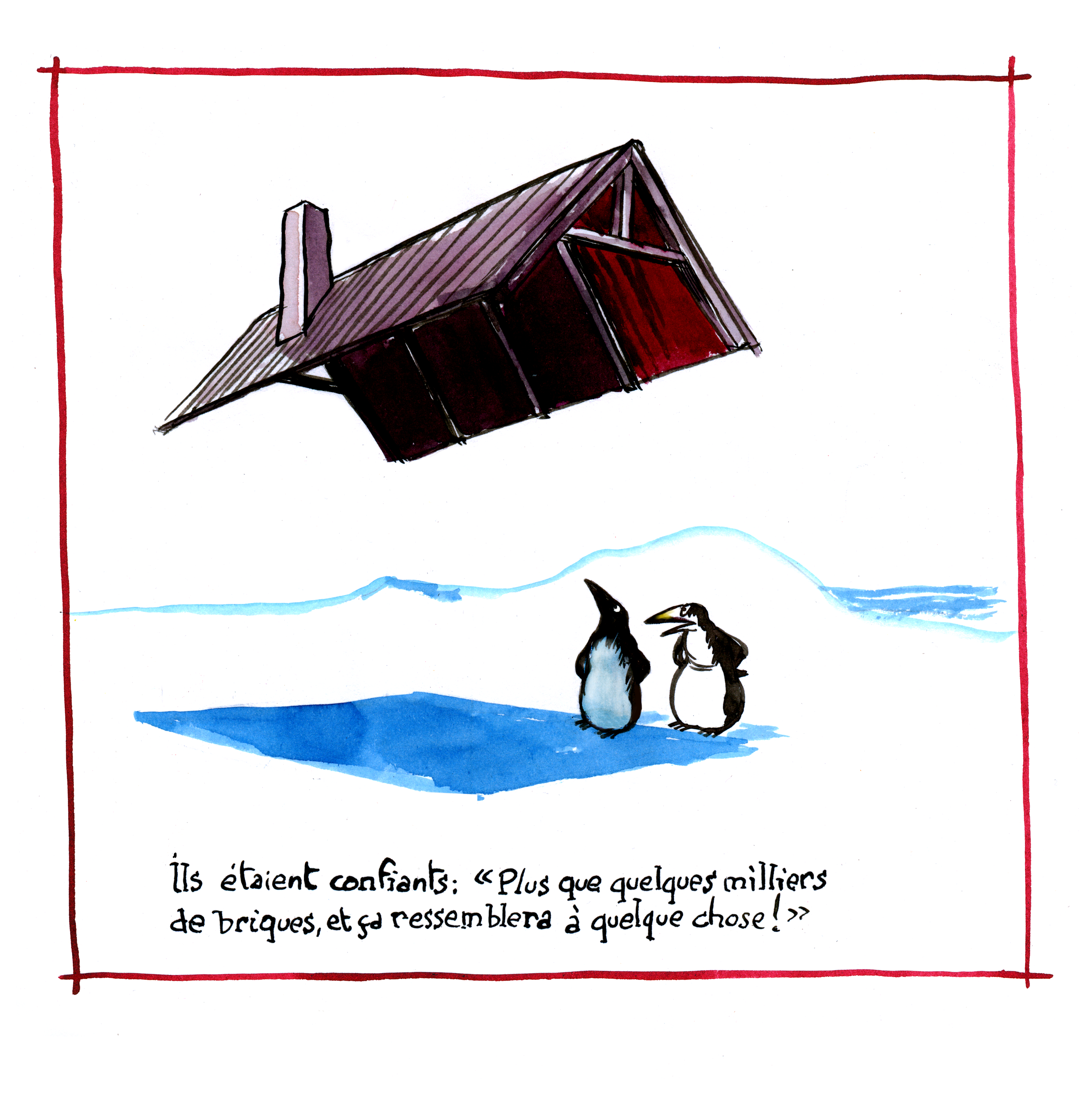 From L.L. de Mars for Framasoft